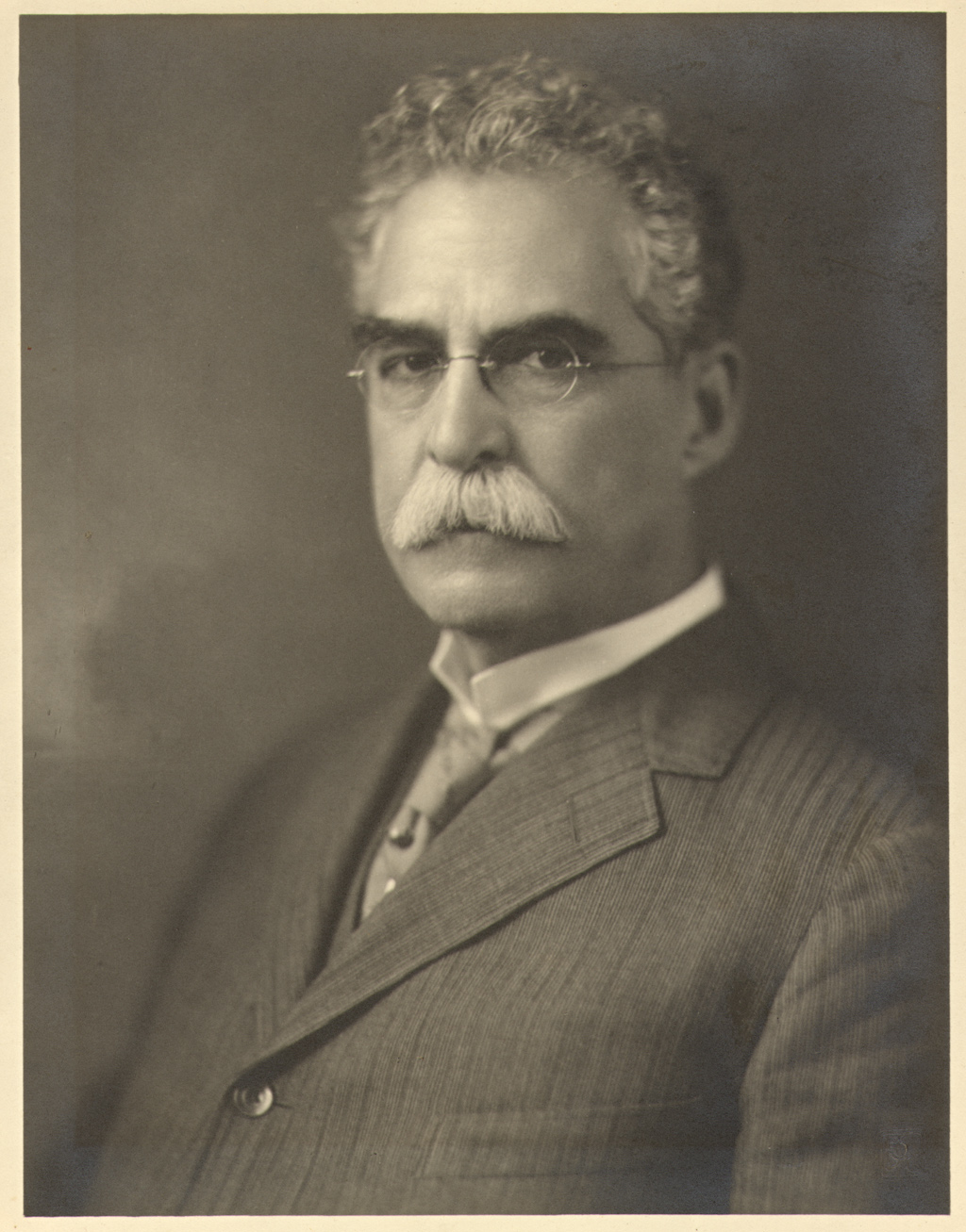 Belnore (B.F.) Brisac around 1908.